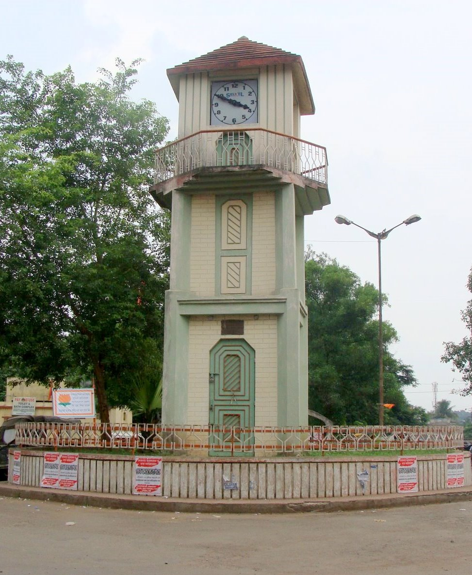 clock tower asansol